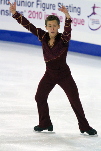 Grant Hochstein at the 2010 World Junior Figure Skating Championships